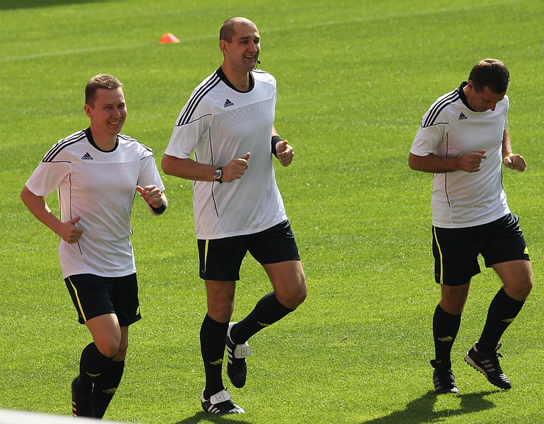 Eduard Maliy